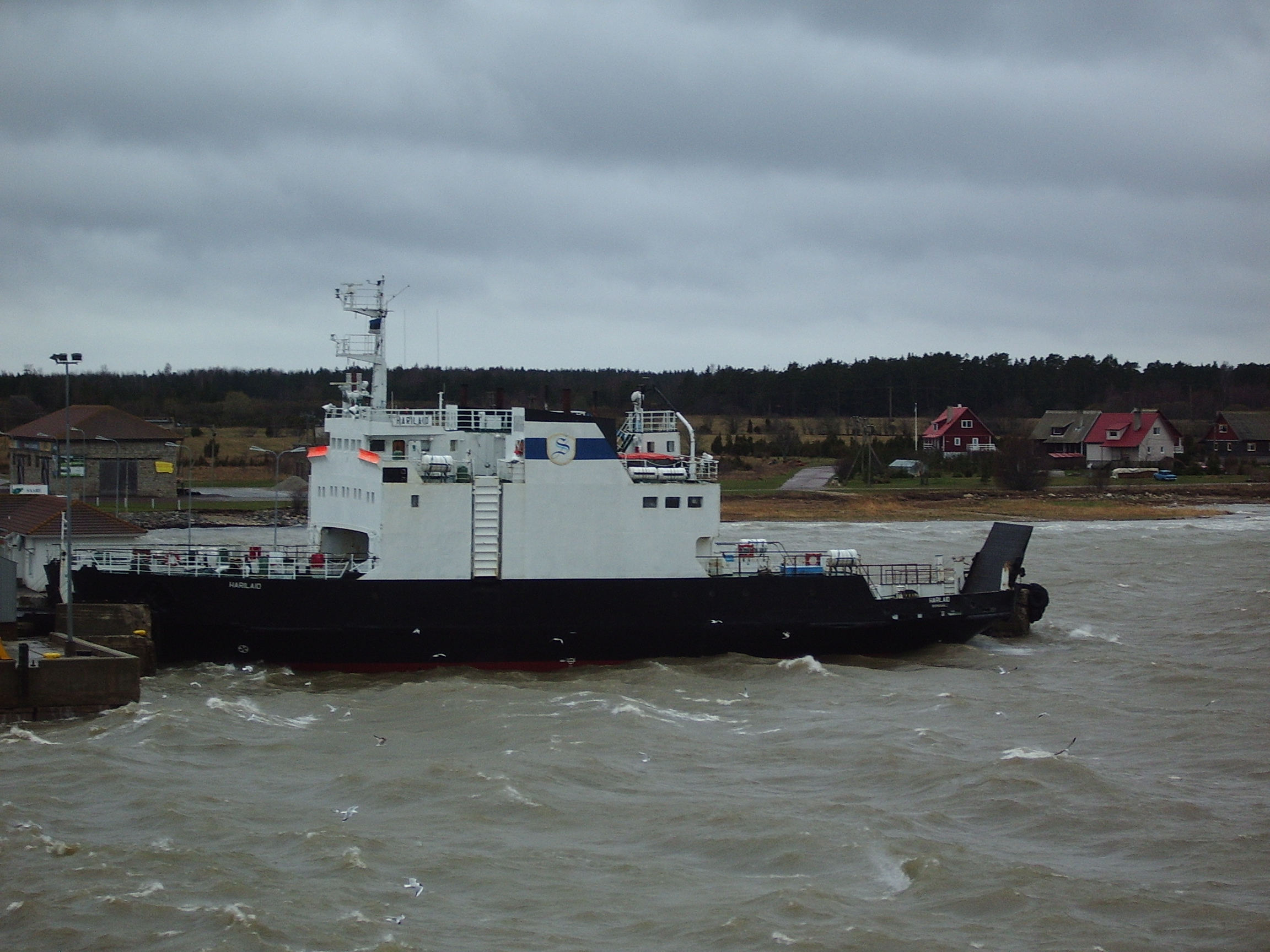 M/S HARILAID. Built: 1985 at Riga Shiprepair Yard, Riga, Lettland. Yardnumber: 502. IMO number: 8727367